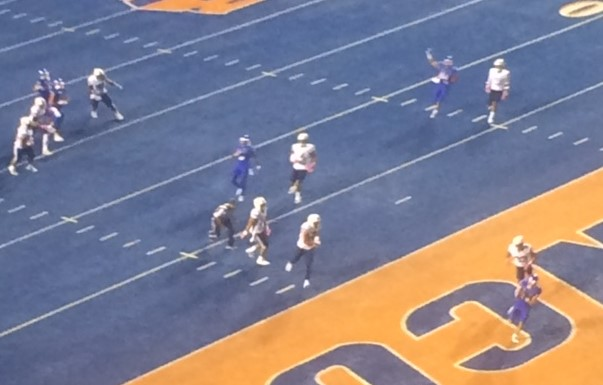 Boise State wide receiver Thomas Sperbeck (bottom right) catching a touchdown in the second quarter in Boise State's game vs BYU on October 20, 2016 at Albertsons Stadium in Boise, Idaho.